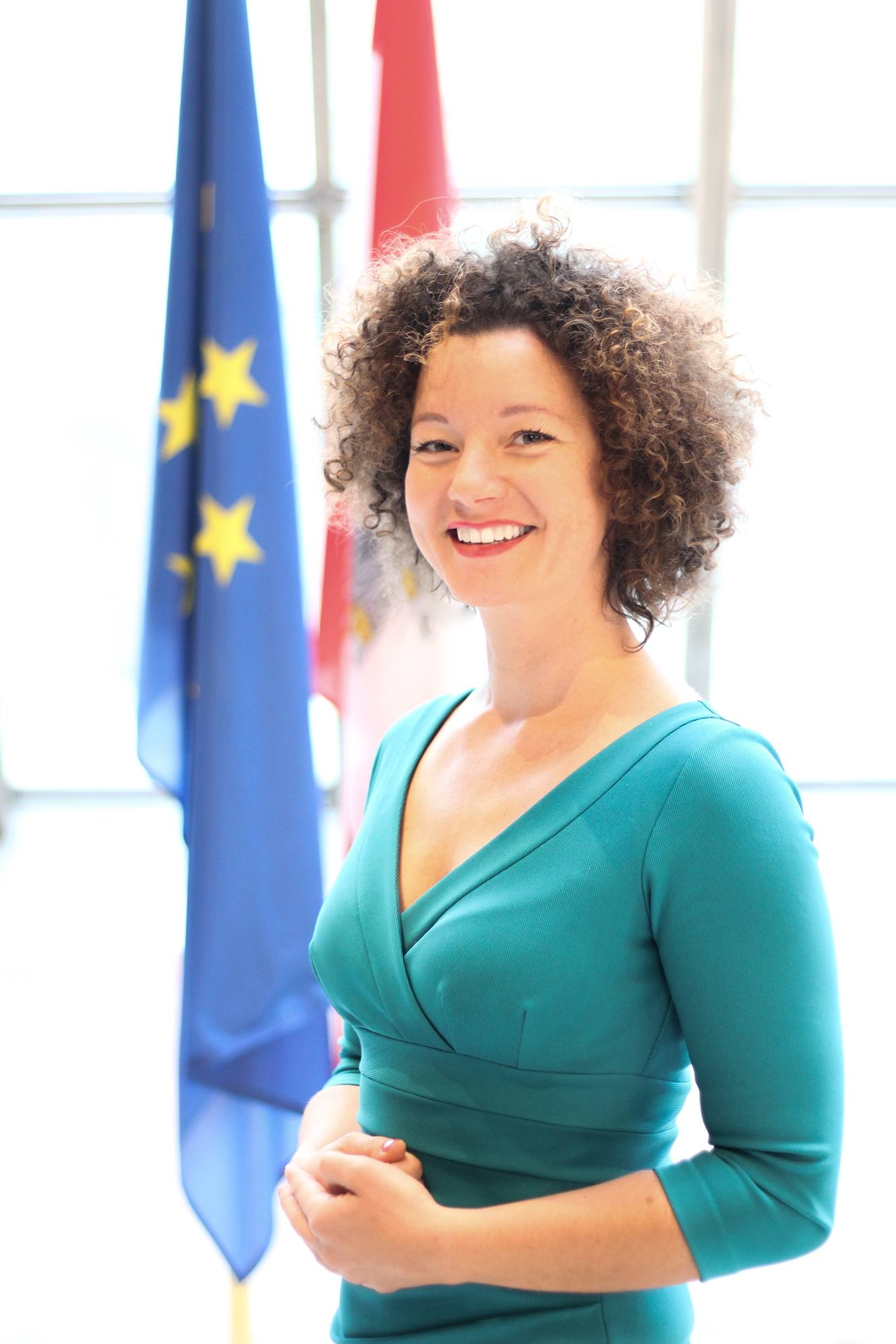 Martha Bißmann, member of the National Council, Republic of Austria